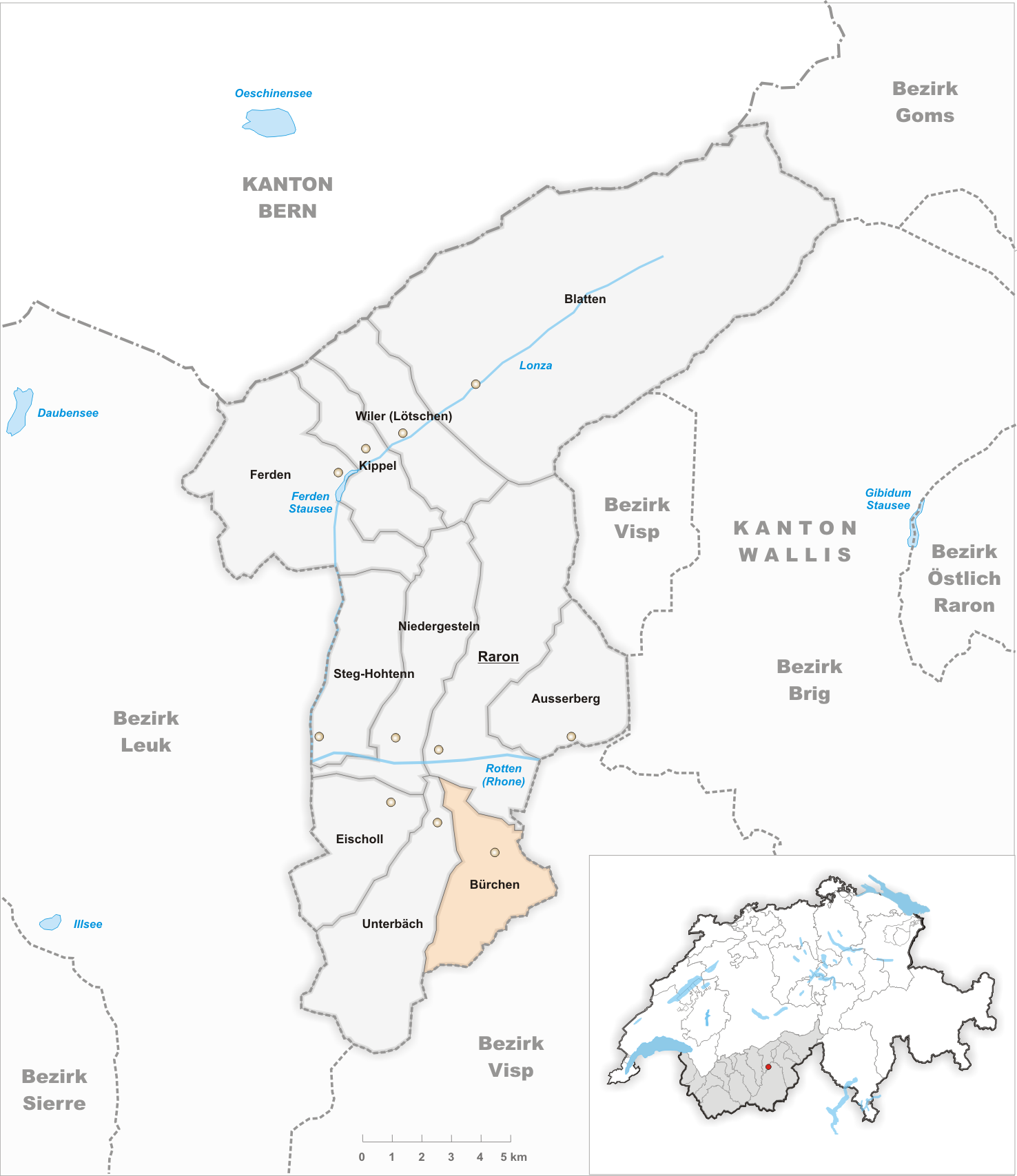 Municipality Bürchen